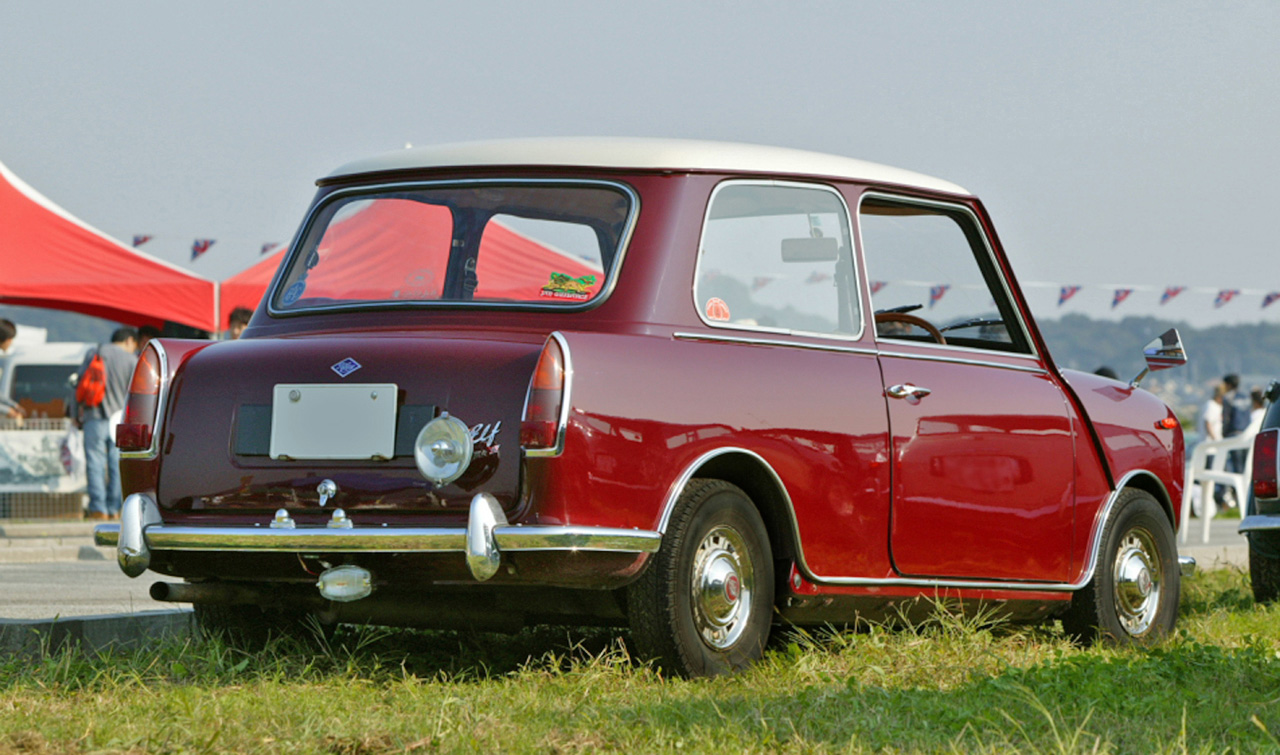 Riley Elf.